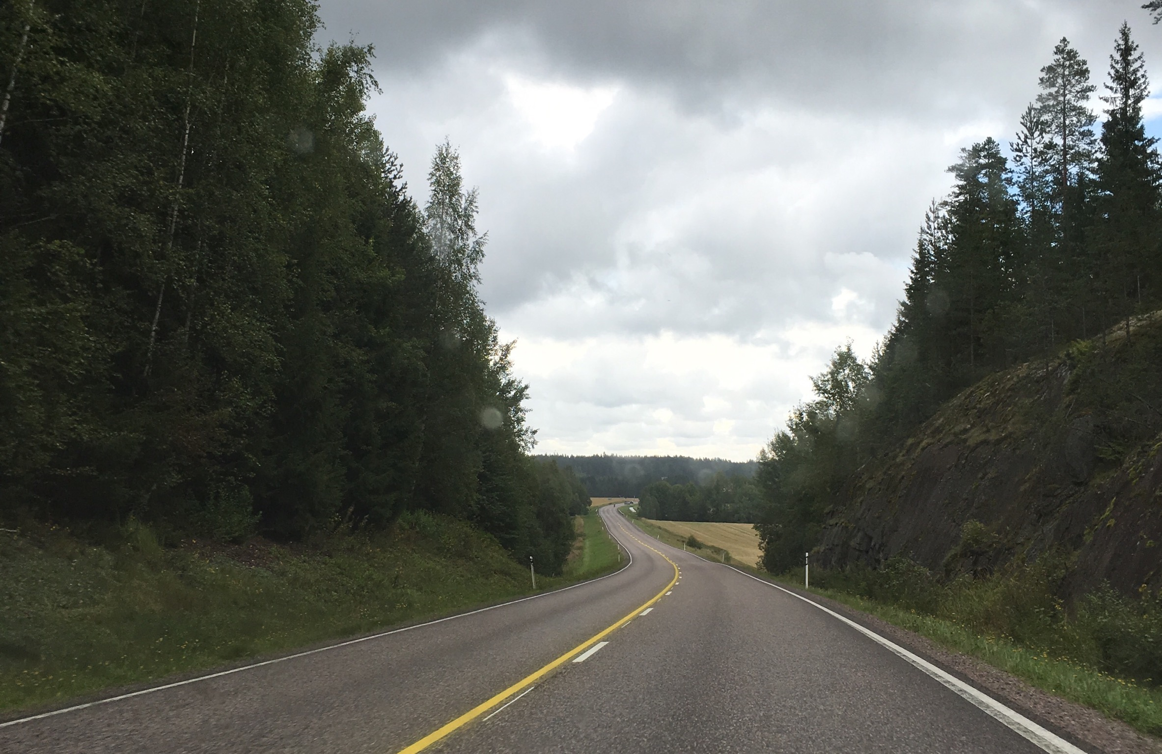 Regional road 164 in Orimattila, Finland